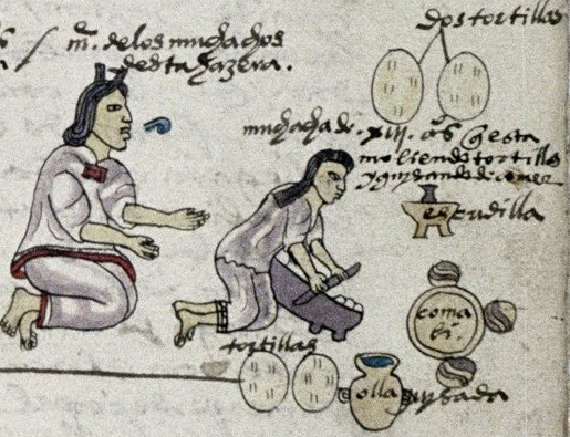 Codex Mendoza f. 60r detail: meal preparation and tortilla ration for 13 year old girl